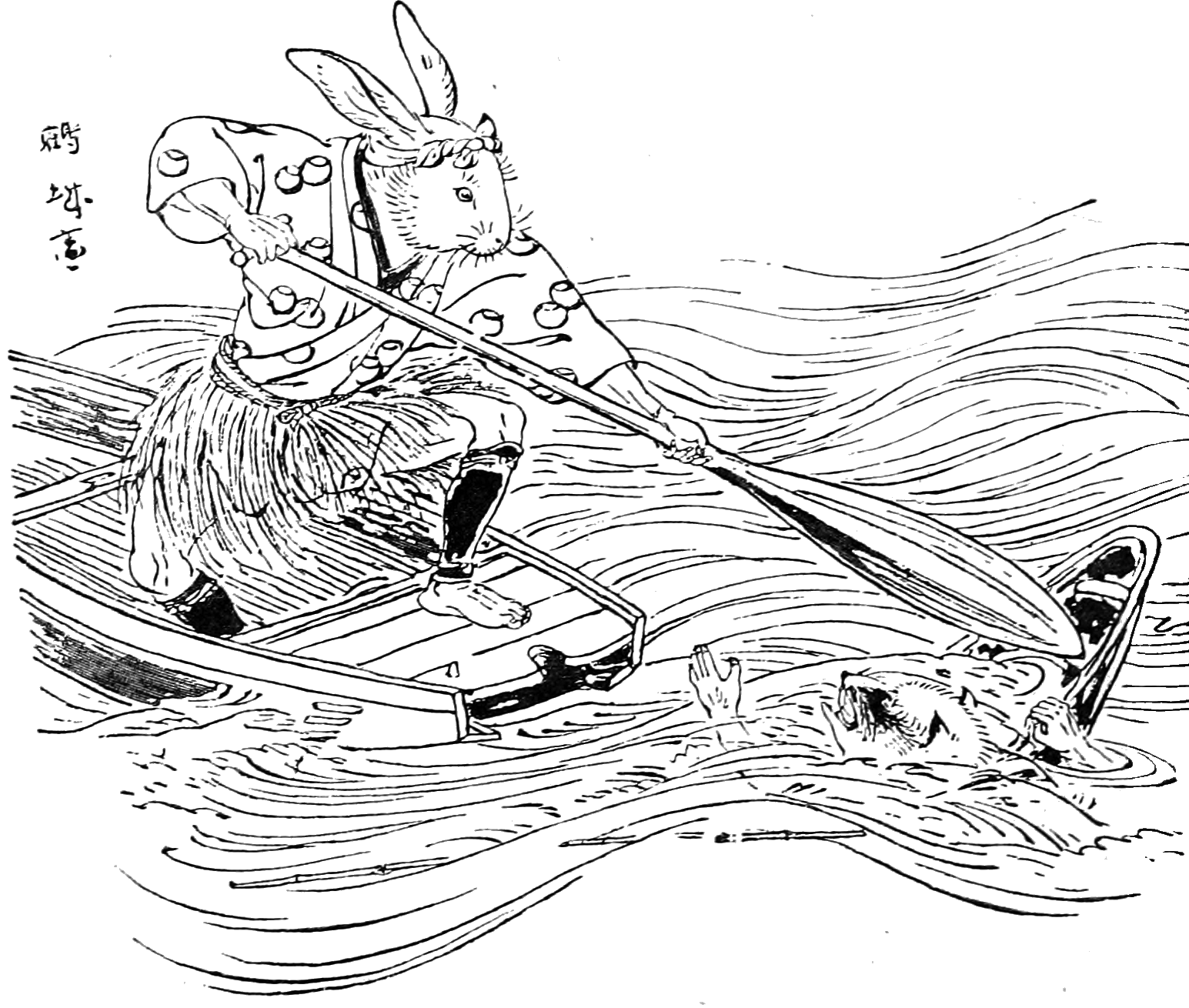 Image from The Japanese Fairy Book